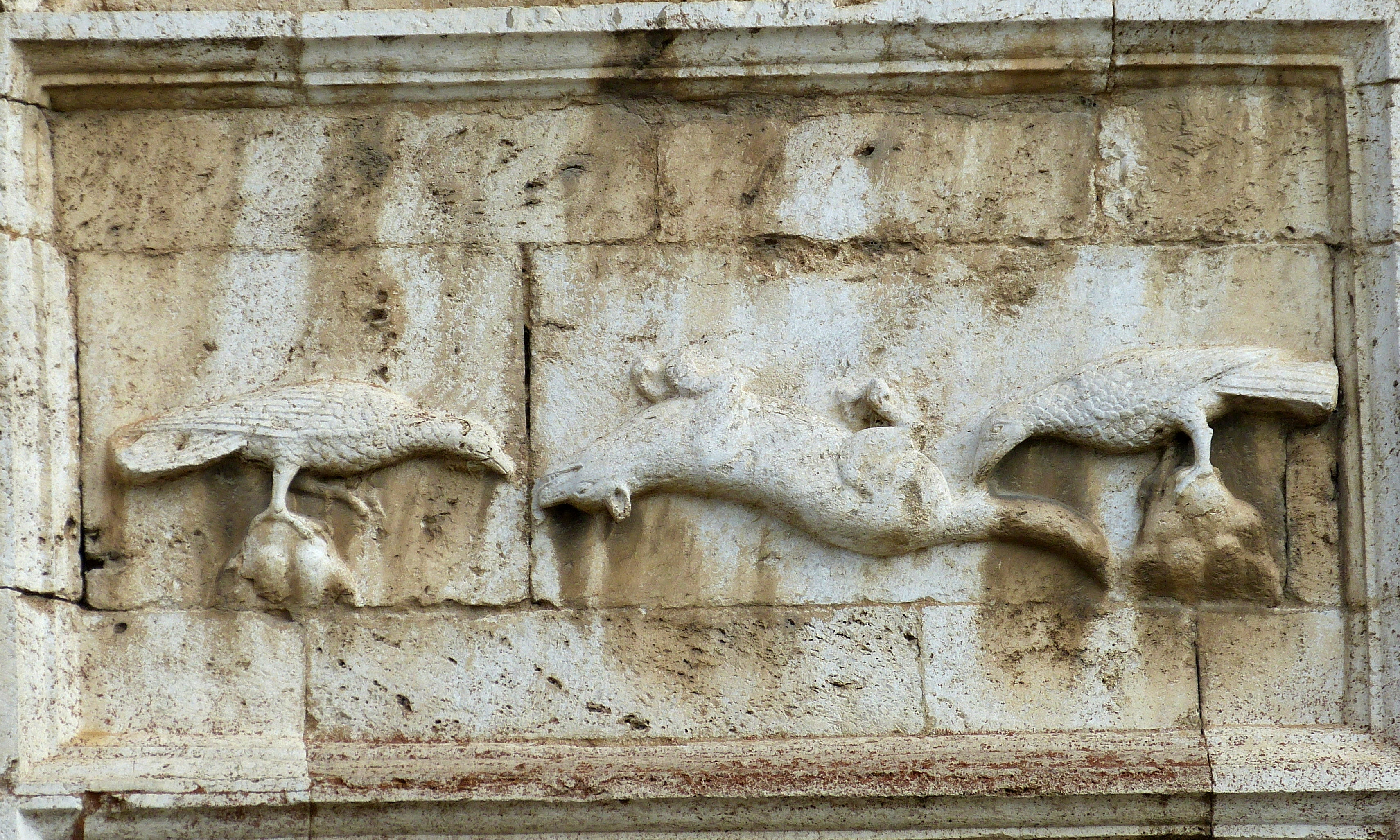 Spoleto ( Umbria ). San Pietro fuori le mura: Romanesque main portal ( 1200s ) - Reliefs at the right: The wolf playing dead seduces the raven in coming nearer ( Allegory of temptation ).